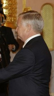 Jozef Migaš